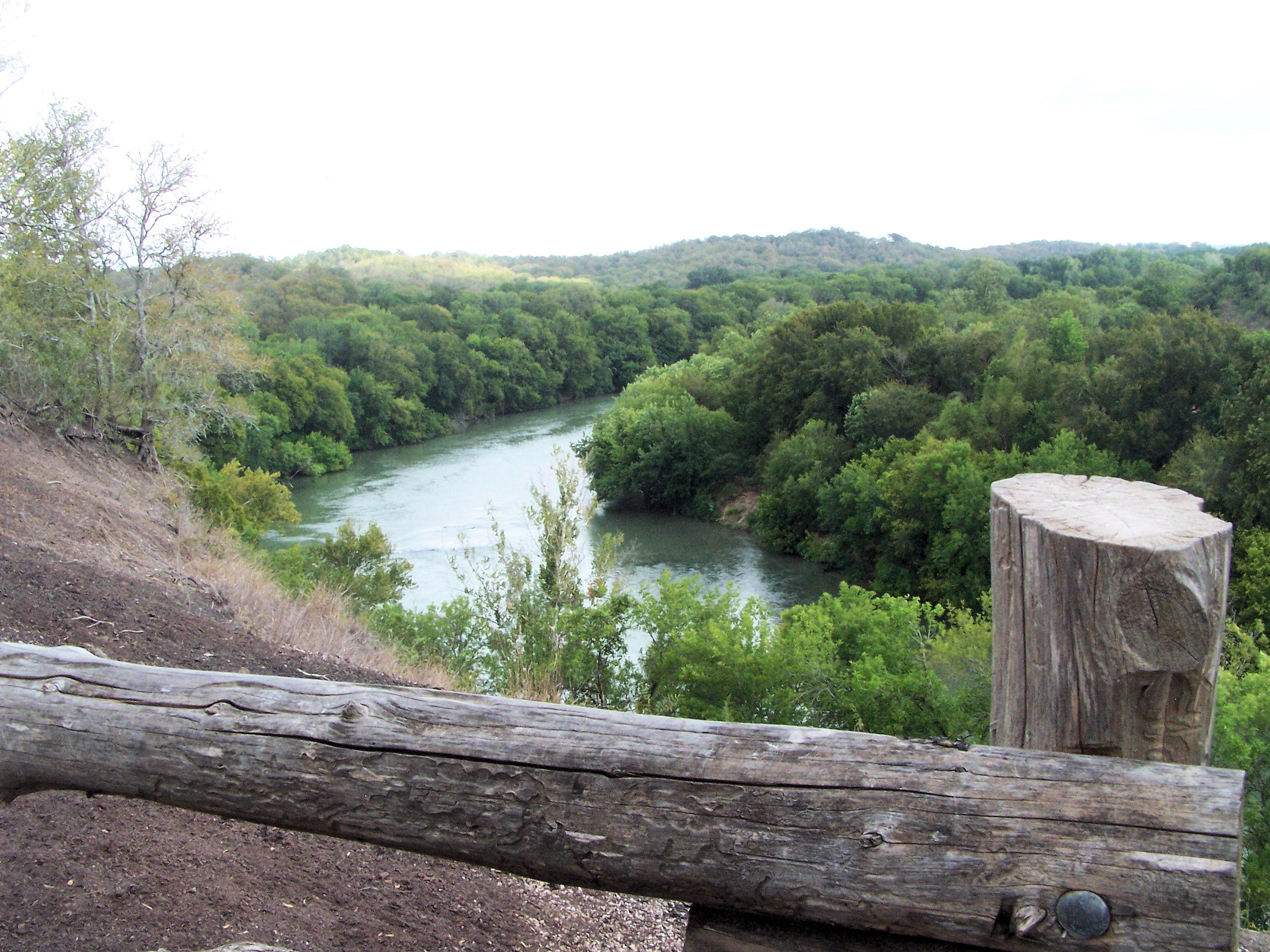 The Colorado River, at McKinney Roughs Nature Park, Texas, United States. McKinney Roughs is owned by the Lower Colorado River Authority (LCRA).